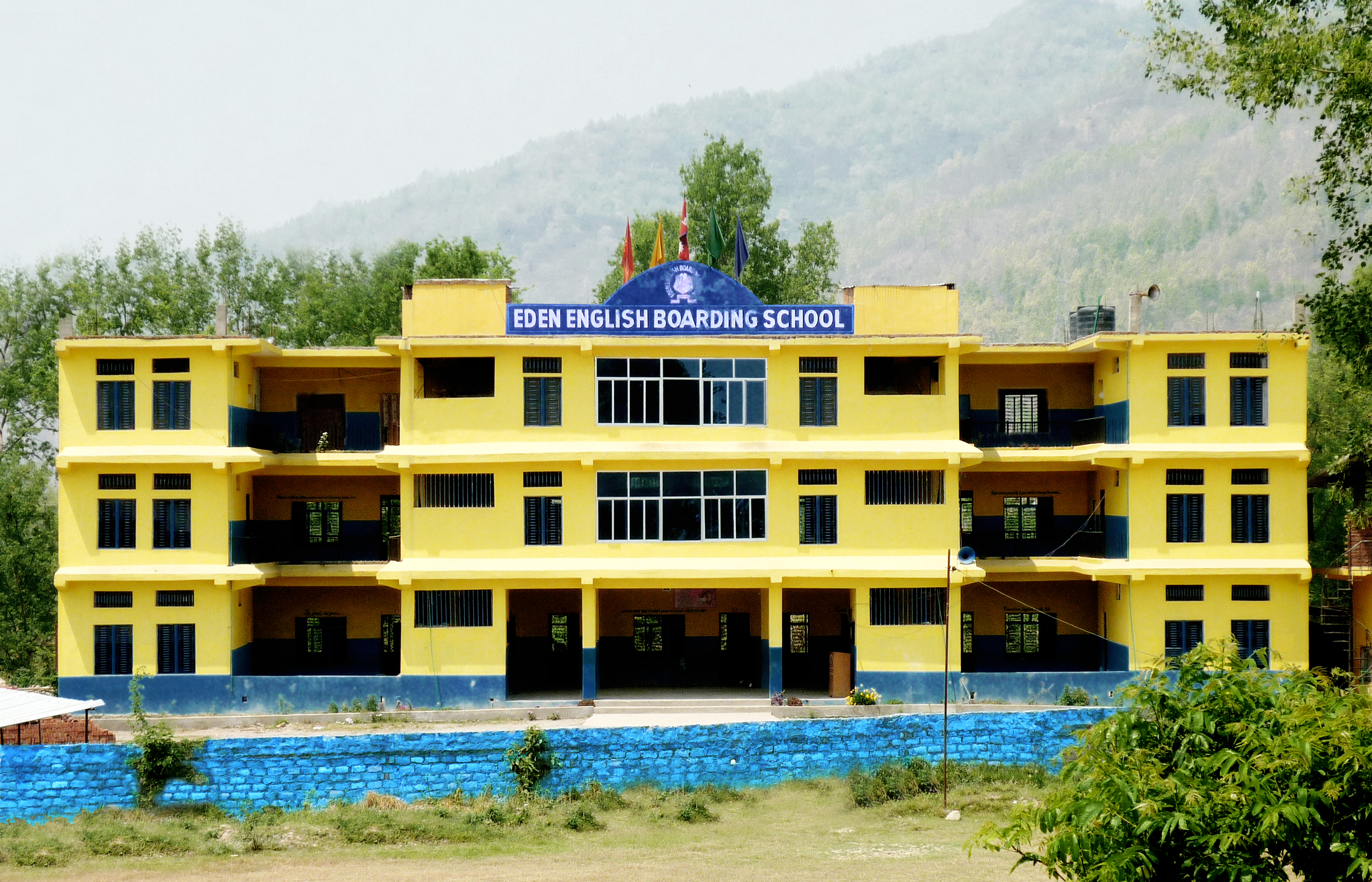 A straight full view of Eden English Boarding School, Naharpur, Butwal-13, Rupandehi